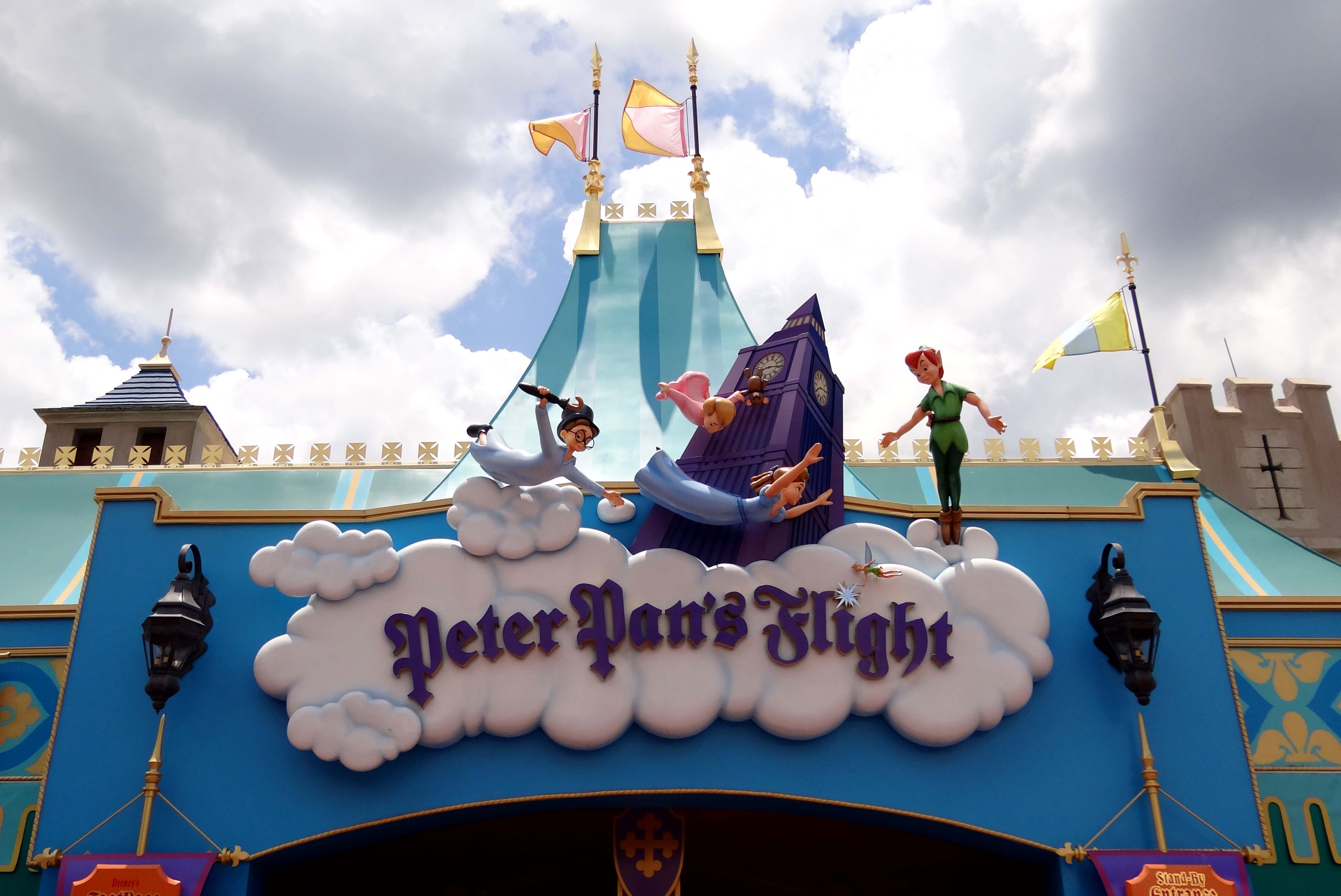 Peter Pan's Flight, Magic Kingdom